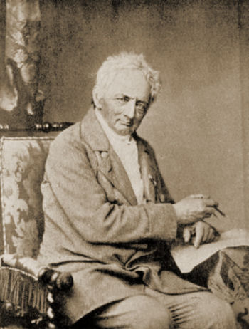 Photo of Heinrich von Pechmann from the year 1861.